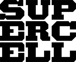 Supercell logo